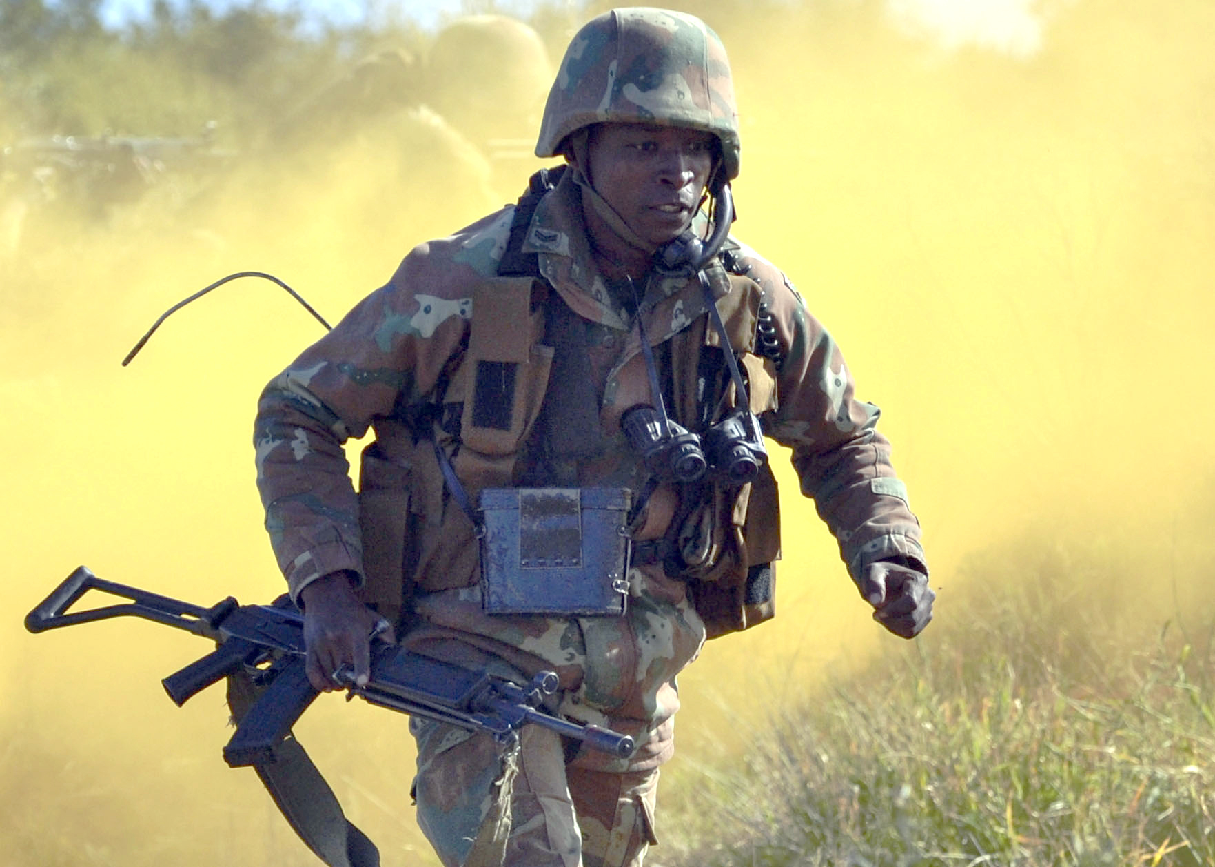 A Soldier with the 9th South African Infantry Battalion reacts to a near ambush by opposition forces as smoke grenades go off near Alicedale, South Africa, part of Shared Accord 13. Shared Accord is a biennial training exercise designed to increase capacity and enhance interoperability across the South African and U.S. militaries. (U.S. Army Africa photo)